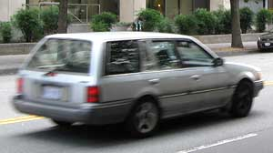 1987-1989 Mercury Tracer photographed in Washington, D.C., USA.